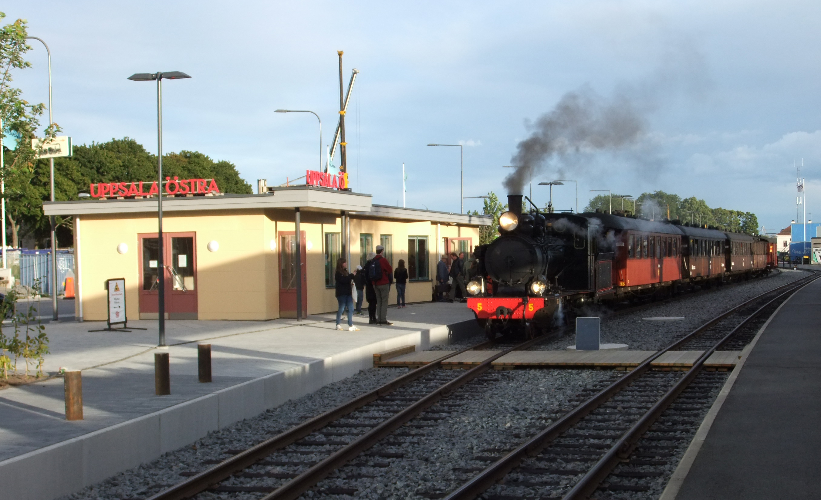 New railway station Uppsala Östra från 2012. At Upsala-Lenna Railway. With lokomotive 5. Photographed during culture night sept 8 2012